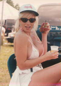 Kylie Ireland at the 1995 NightMoves Awards show